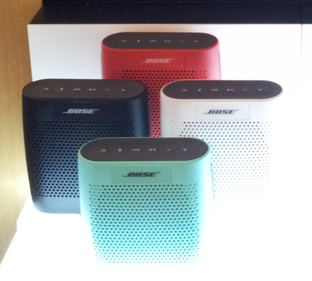 Bose SoundLink Colour models on retail display